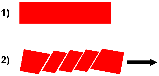 I have made this picture myself, inspired by the slip system picture of the University of Cambridge. It shows the slip system in a metal bar, as a reaction on an external force (for example by extrusion). The picture will be used on the Dutch wikipedia (article called "Afschuiving").